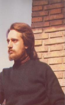 Enrique Gracia Trinidad, 1976